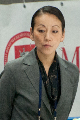 2011 Cup of Russia, short program.